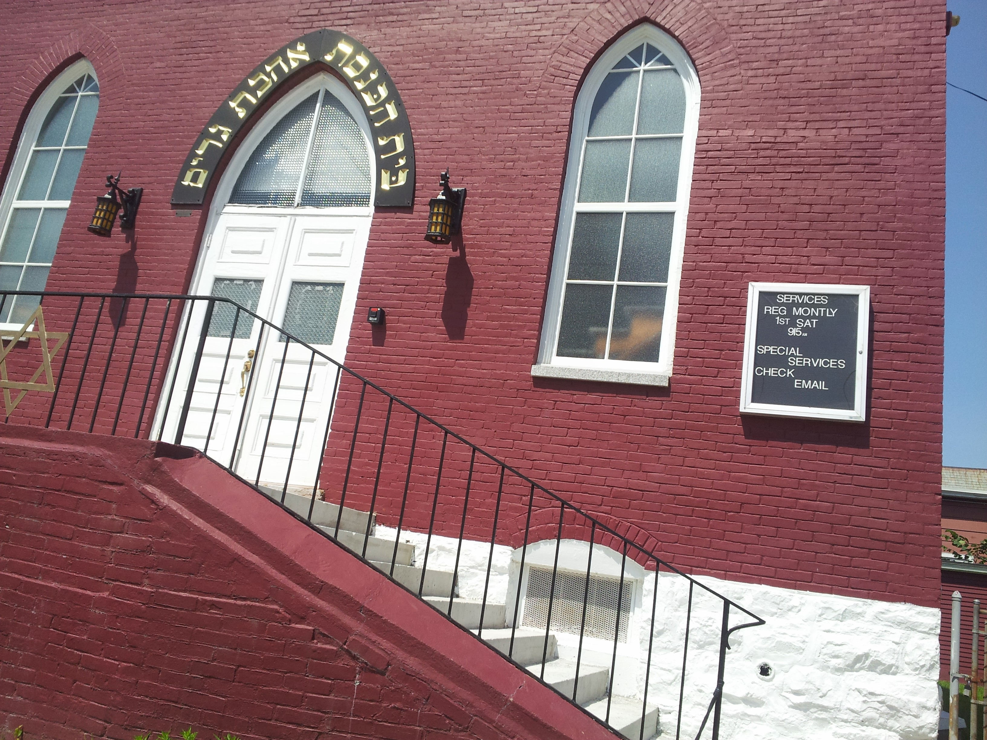 Congregation Ahavath Gerim, Archibald and Hyde Sts., Burlington, Vermont on June 29, 2014. Photo by Morris Levin.